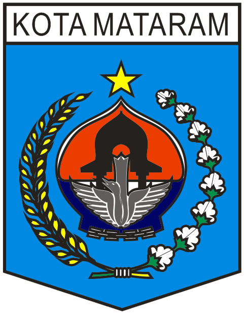 Coat of Arms (Lambang) of City (Kota) Mataram, Provinsi Nusa Tenggara Barat (West Lesser Sunda Islands Province), Indonesia